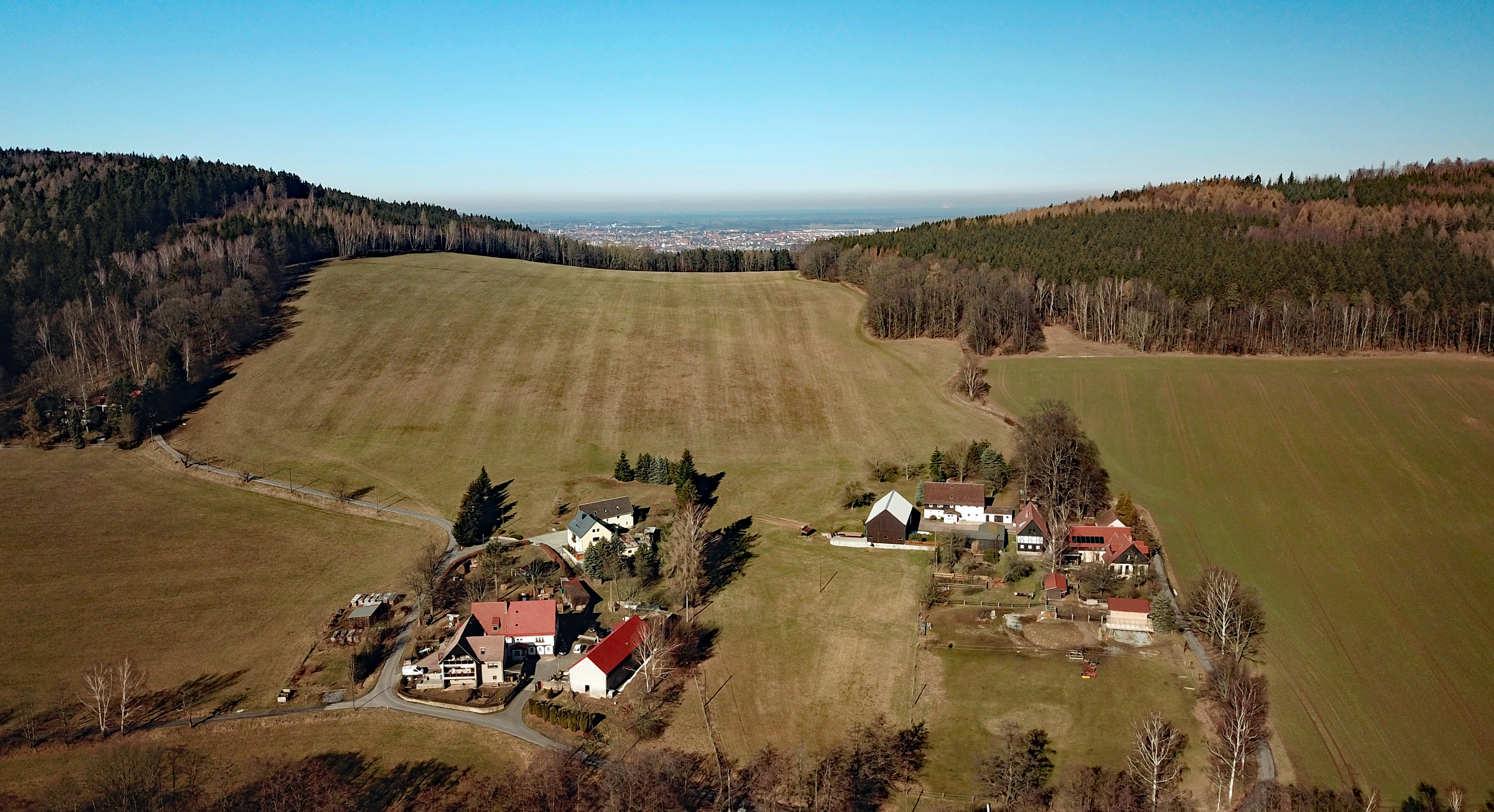 Klein Kunitz, Großpostwitz, Saxony, Germany Hornjoserbsce: Powětrowy wobraz Chójnički z Budyšinom w pozadku